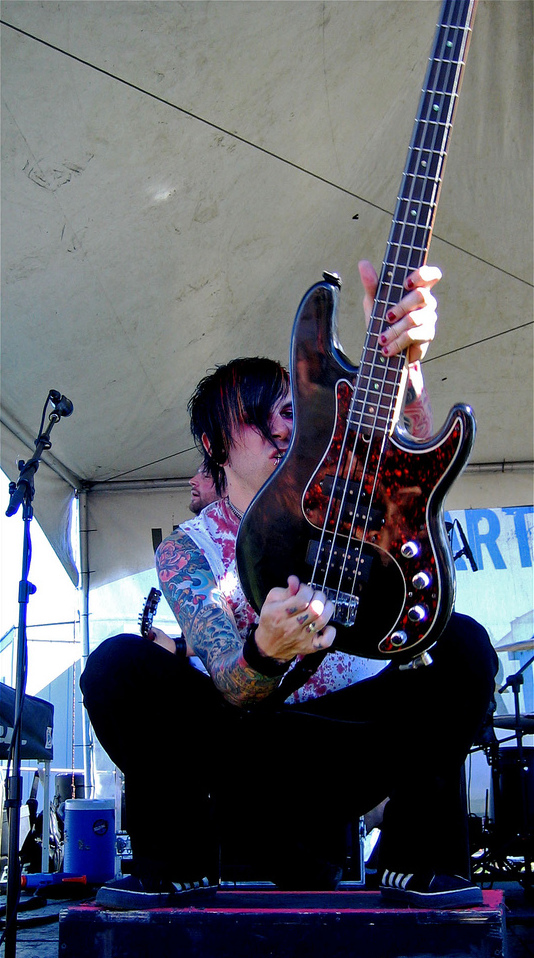 Live Photo of MickDeth